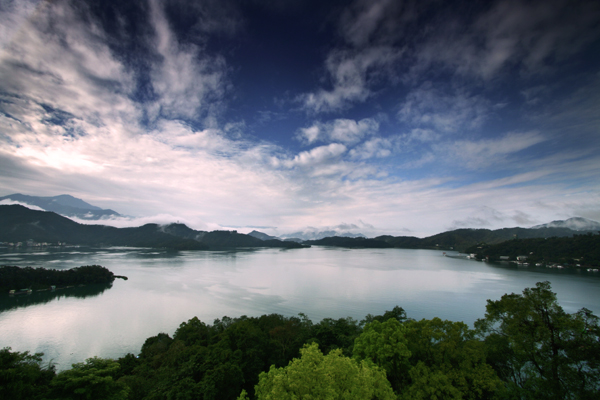 The old name for Sun Moon Lake was "Where water and sand meet". And here is a temple sideways.